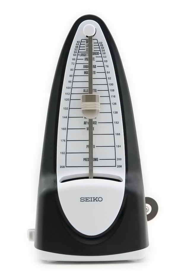 Seiko metronome. Picture created by PJ April 10 2007. 8